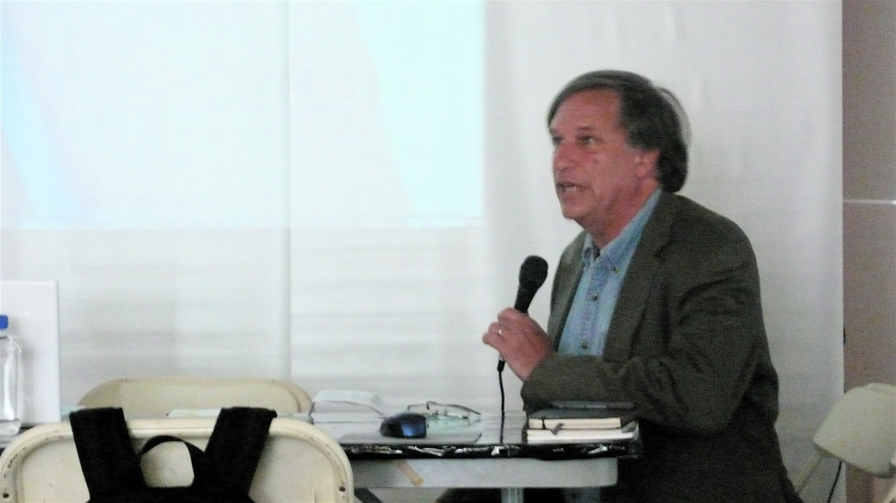 Robert Krulwich speaking at Postopolis! in 2005